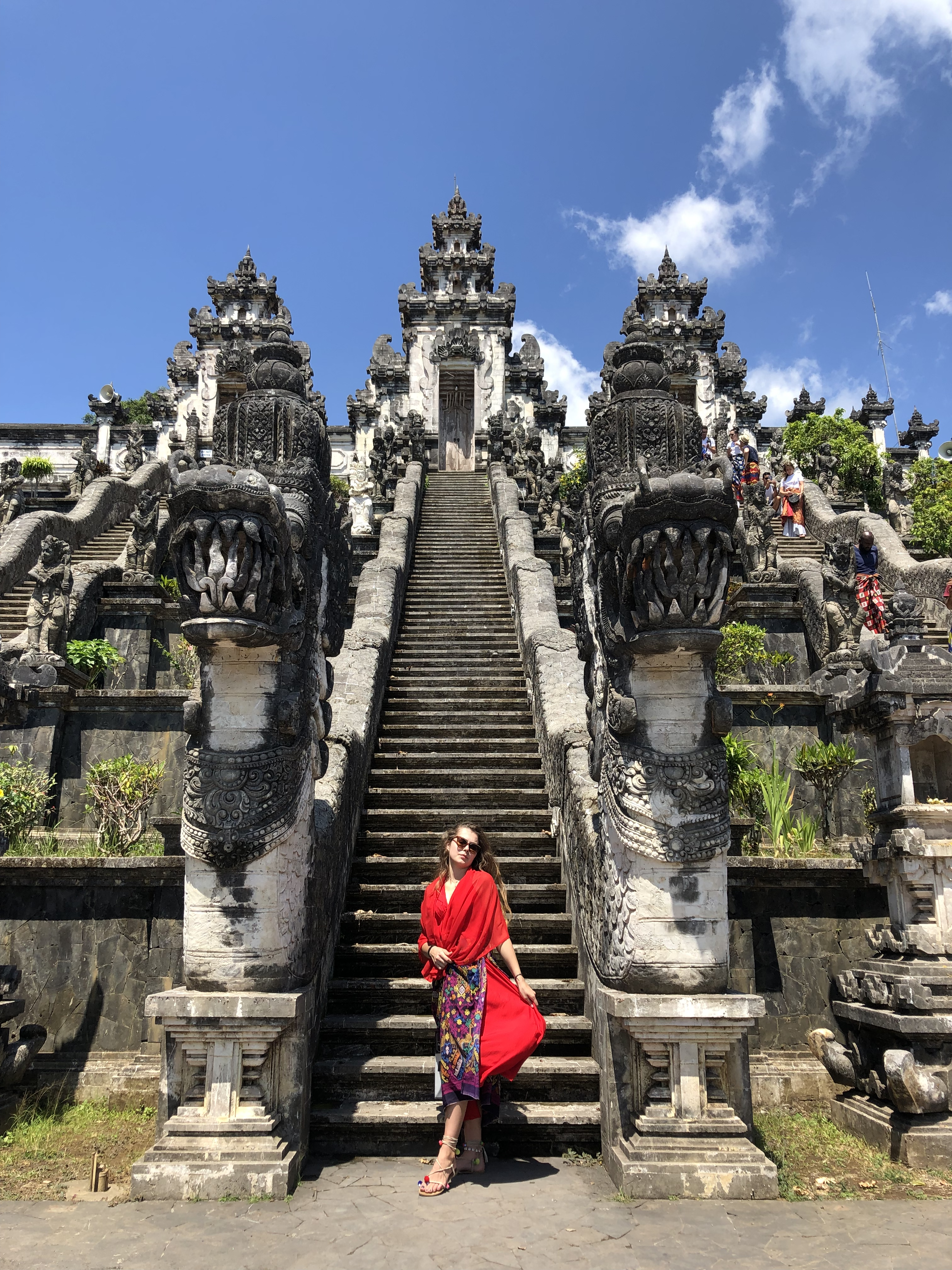 Pura Lempuyang, Bali This photo has been taken in the country: Indonesia